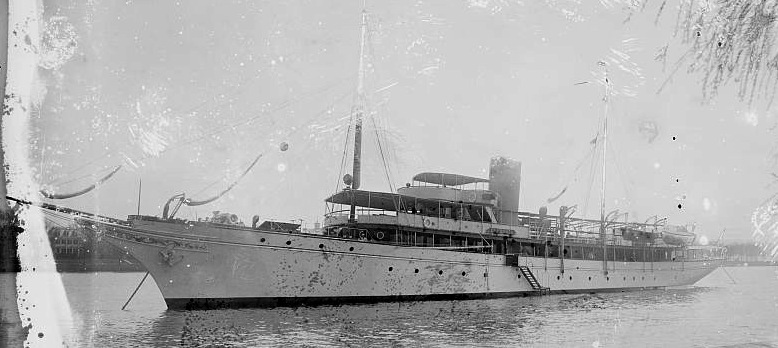 The Lyndonia in 1925. The yacht was originally built in 1920 and was owned by Cyrus Curtis until 1940 when it was purchased by Pan American Airways. It was purchased by the US Army in 1941 and was aquired by the US Navy in 1942. It was sunk during a typhoon in 1945.